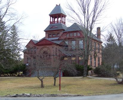 D.M. Hunt Library, built 1891, in Falls Village, Connecticut. A contributing property in the NRHP-listed Falls Village District